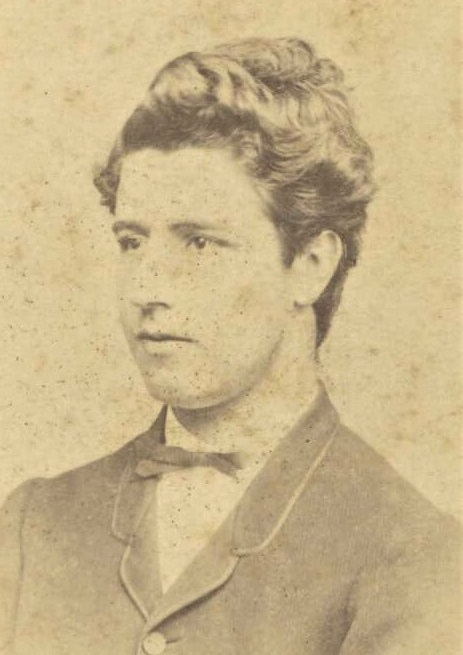 The first Prime Minister of Australia, Sir Edmund Barton, aged approximately 17.